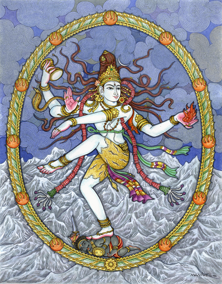 Depiction of Nataraja by South India Artist Arumugam Manivelu, ca. 1999